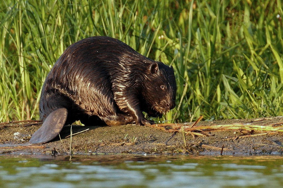 Eurasian beaver (Castor fiber vistulanus) - next to the beaver dam, Tczew area, (northern) Poland